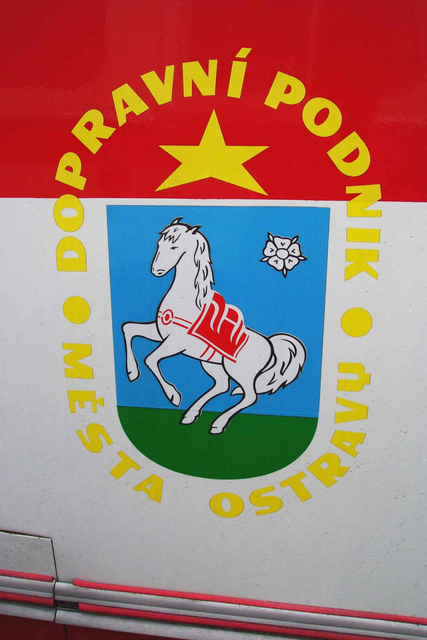 Old logo of DPMO (Ostrava transport provider) on historical bus in VTM Lešany museum